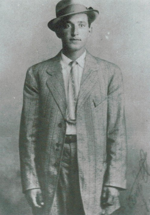 Panayot Karamfilovich in the USA 1911 - 1912